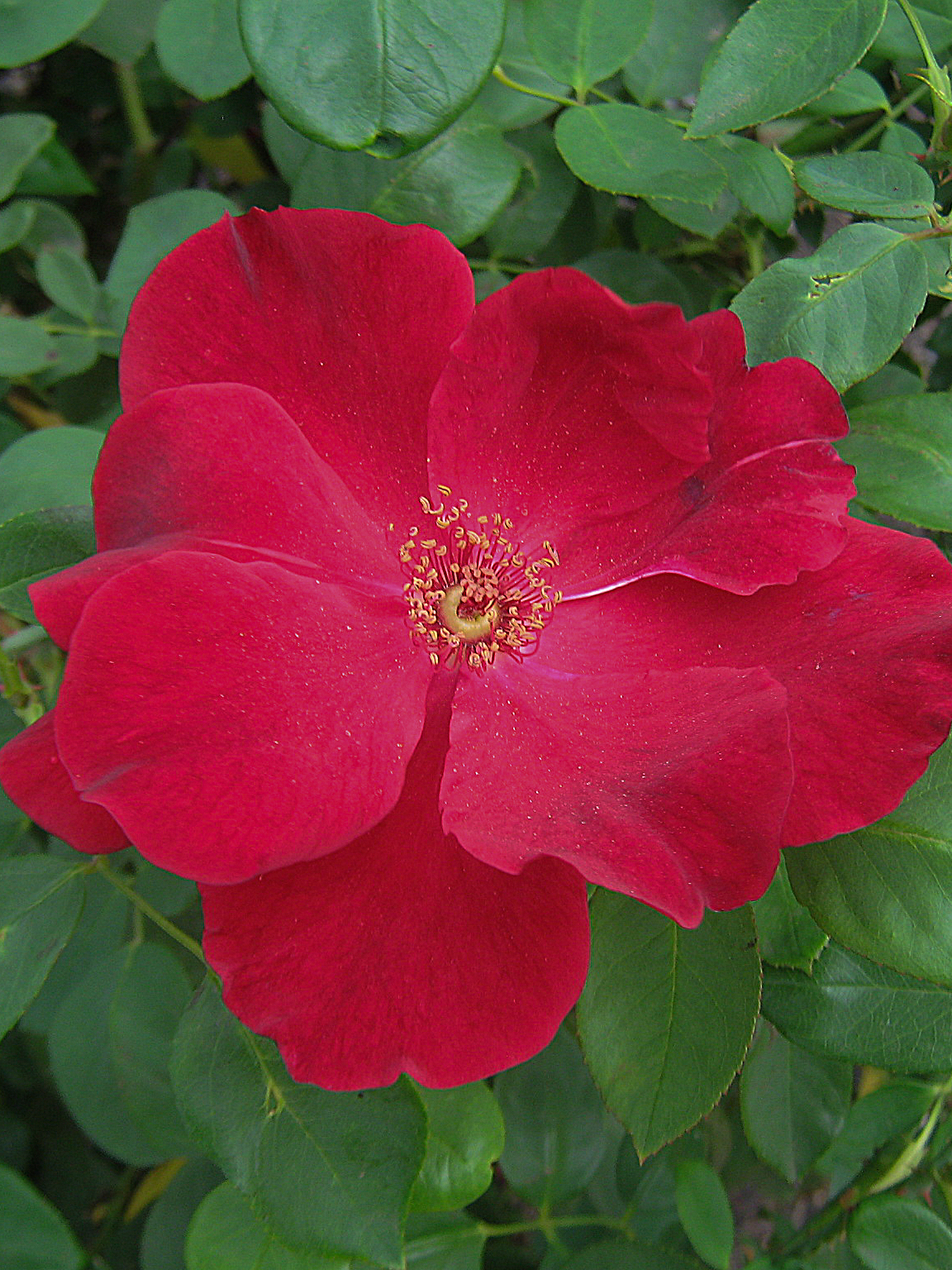 Rose 'Midnight Sun' Grant Macksville NSW 1921, deep red hybrid tea with good sweet scent